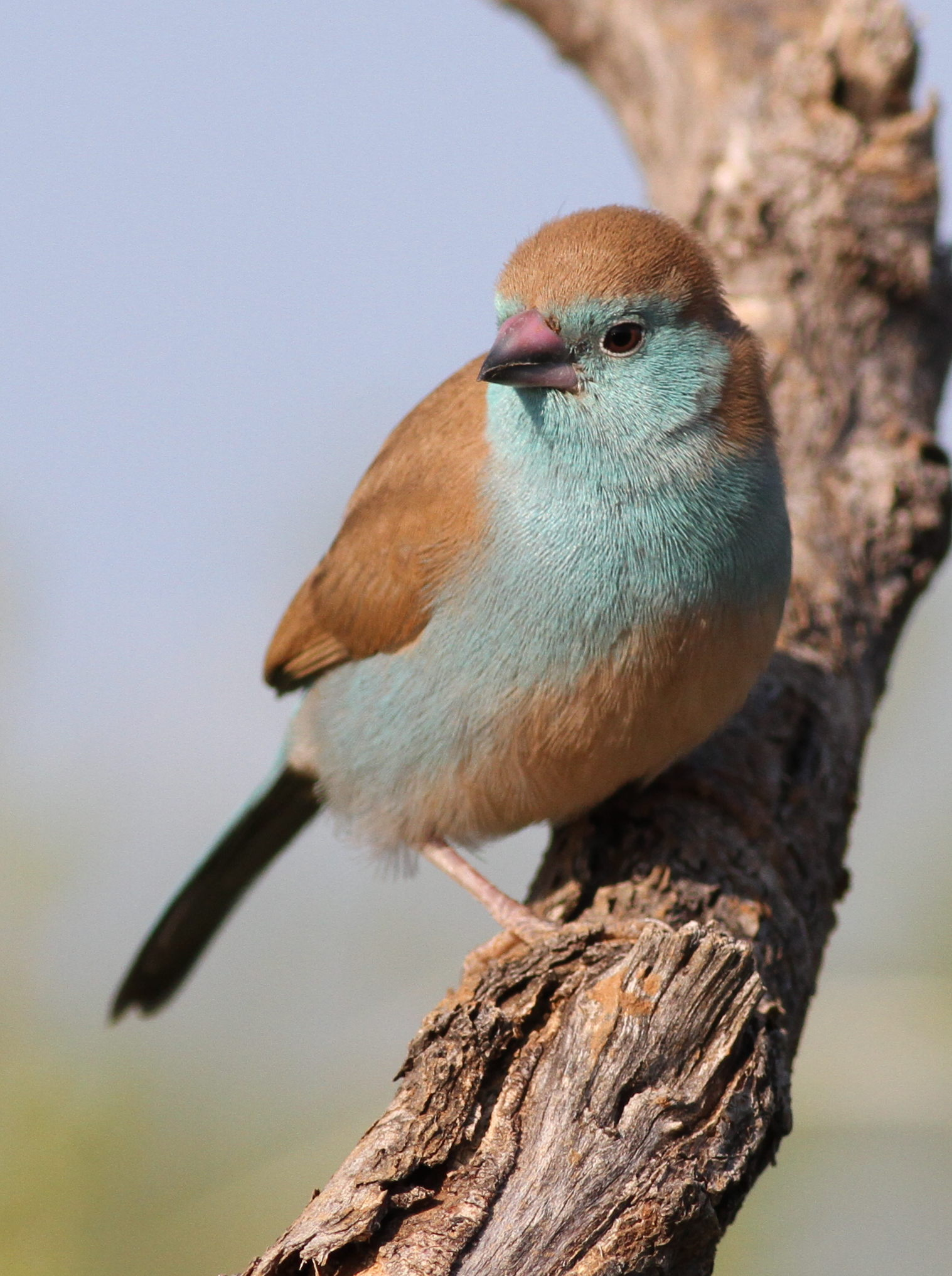 Blue Waxbill, Uraeginthus angolensis, at Mapungubwe National Park, Limpopo, South Africa